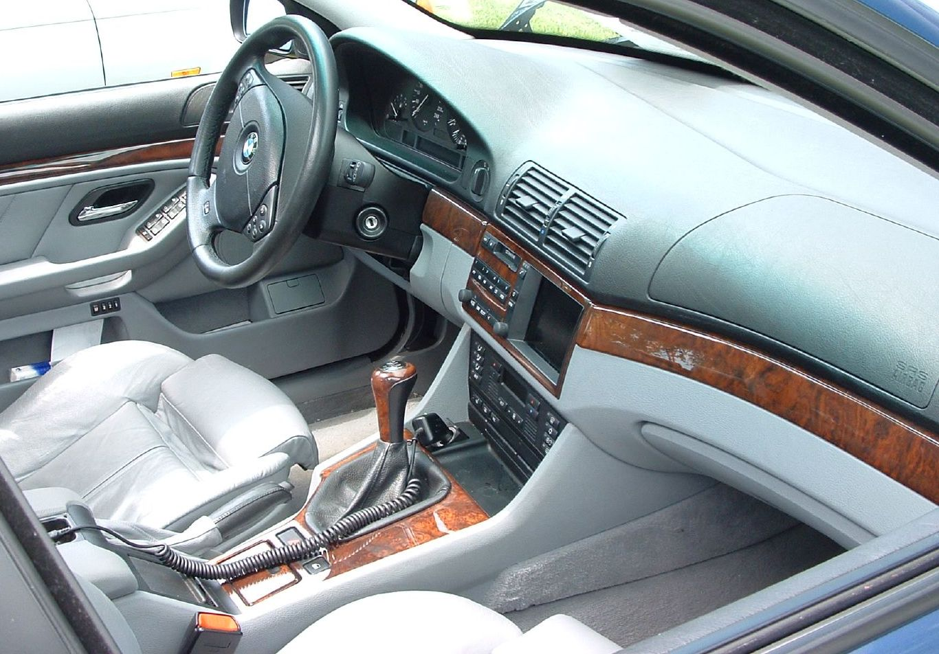 1996-2001 BMW E39 interior.